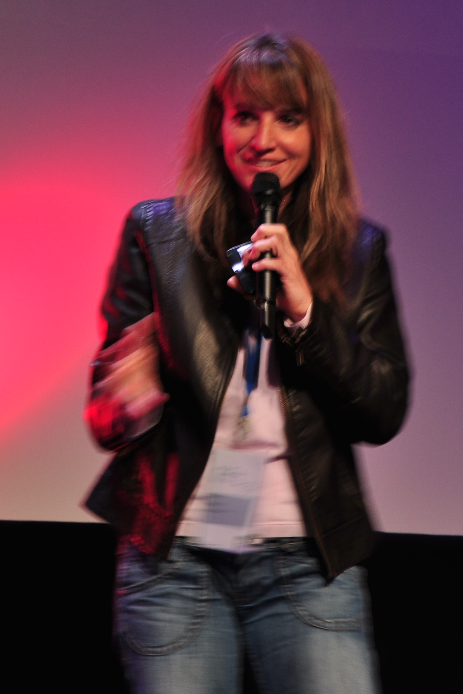 Sarah Marquis speaking on February 25, 2009.